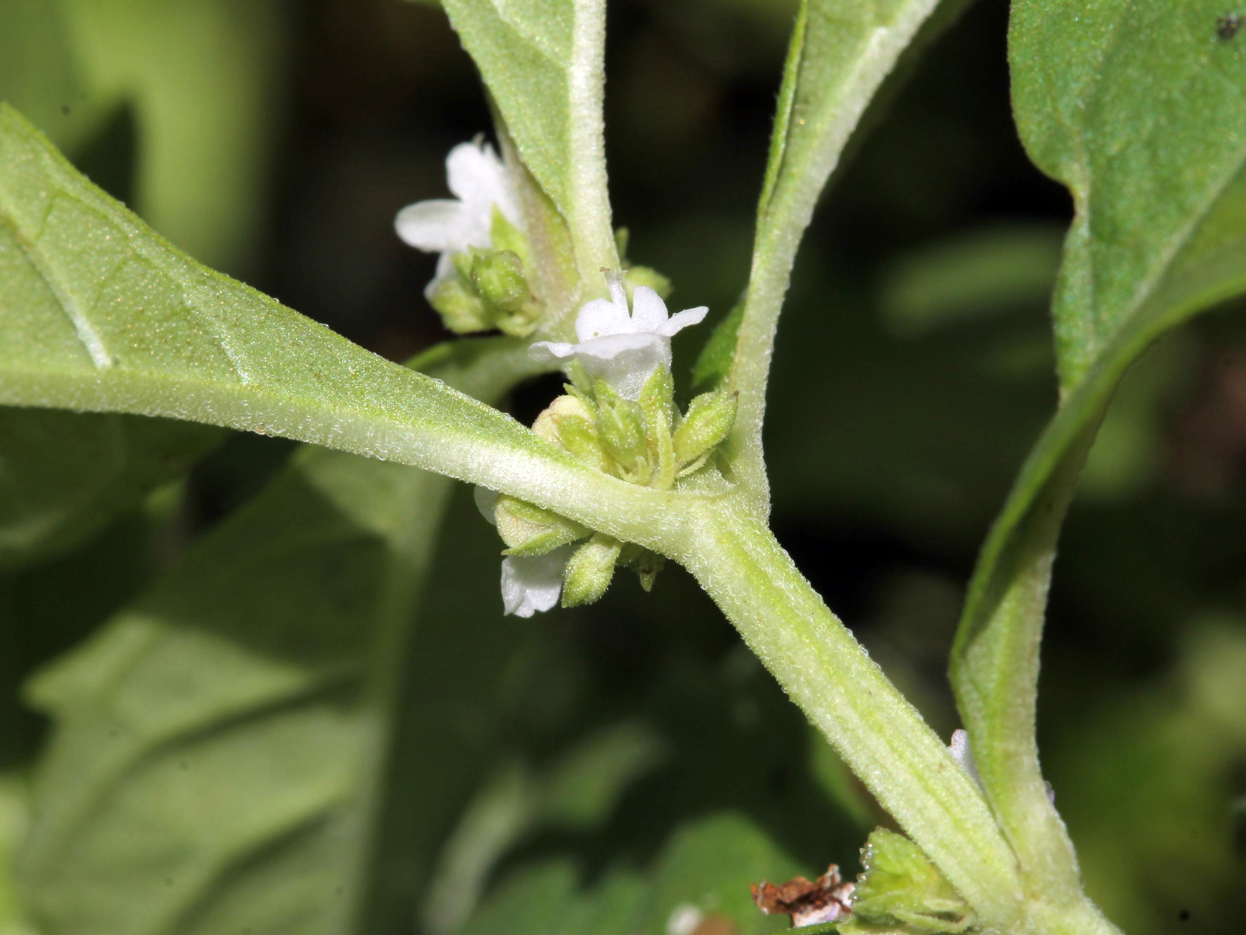 Lycopus uniflorus Michx. - northern bugle weed, slender bugleweed. Bog and surrounding area, Prince Wind farm, Dennis Township, Sault Ste. Marie, Ontario, Canada